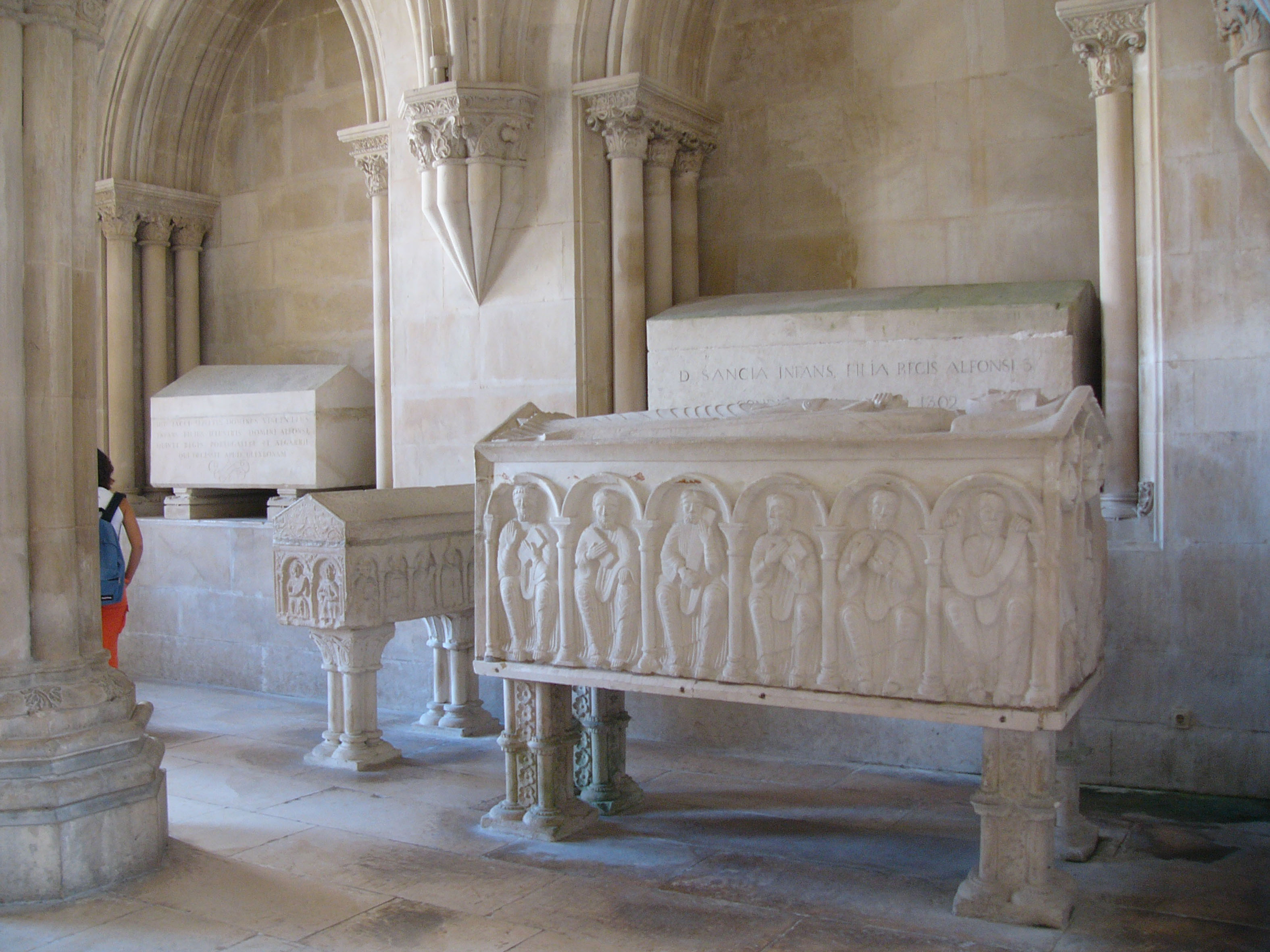 Royal Pantheon of the Alcobaça Monastery, Portugal